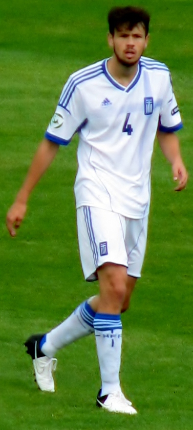 Mavroudis Bougaidis playing for Greece against Estonia